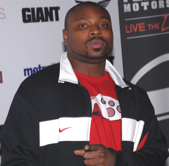 Page Kennedy at a 2007 American Music Awards after-party